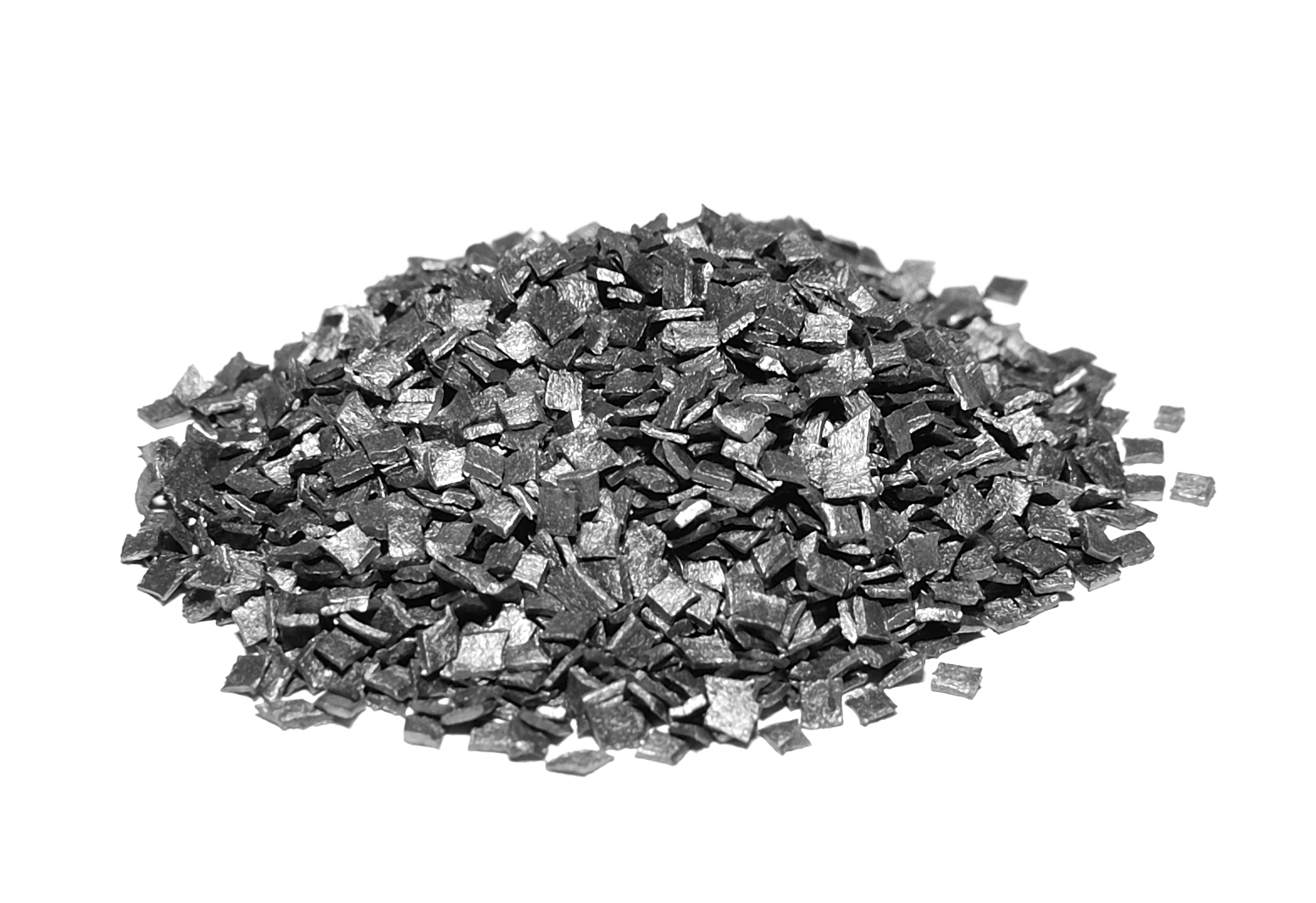 PC 88 square flake shaped rauchschwacher (literally "low smoke") propellant used in the GP90/23 cartridge. As a single-base powder PC 88 relies on nitrocellulose as its propellant ingredient.